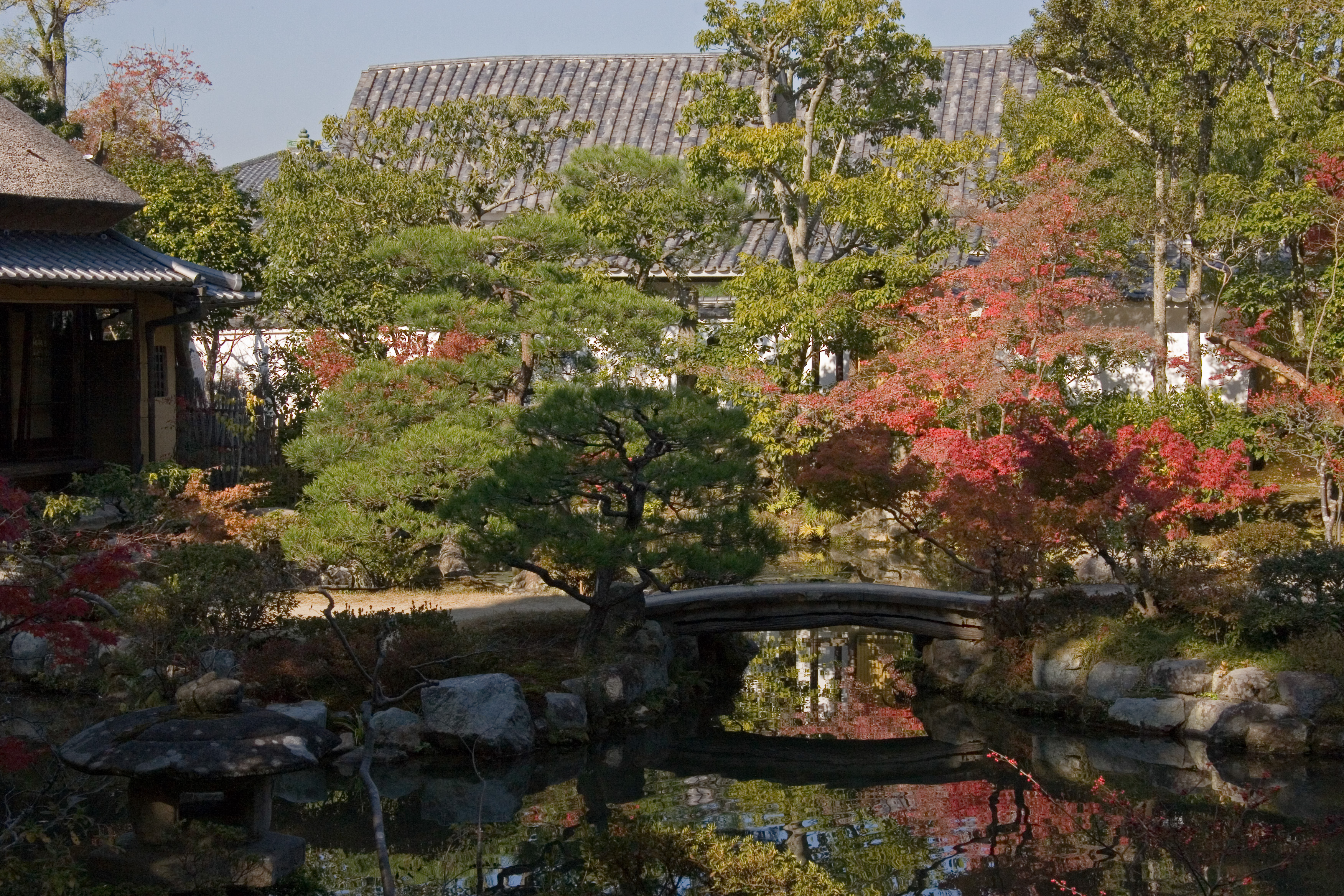 Isuien in Nara, front garden